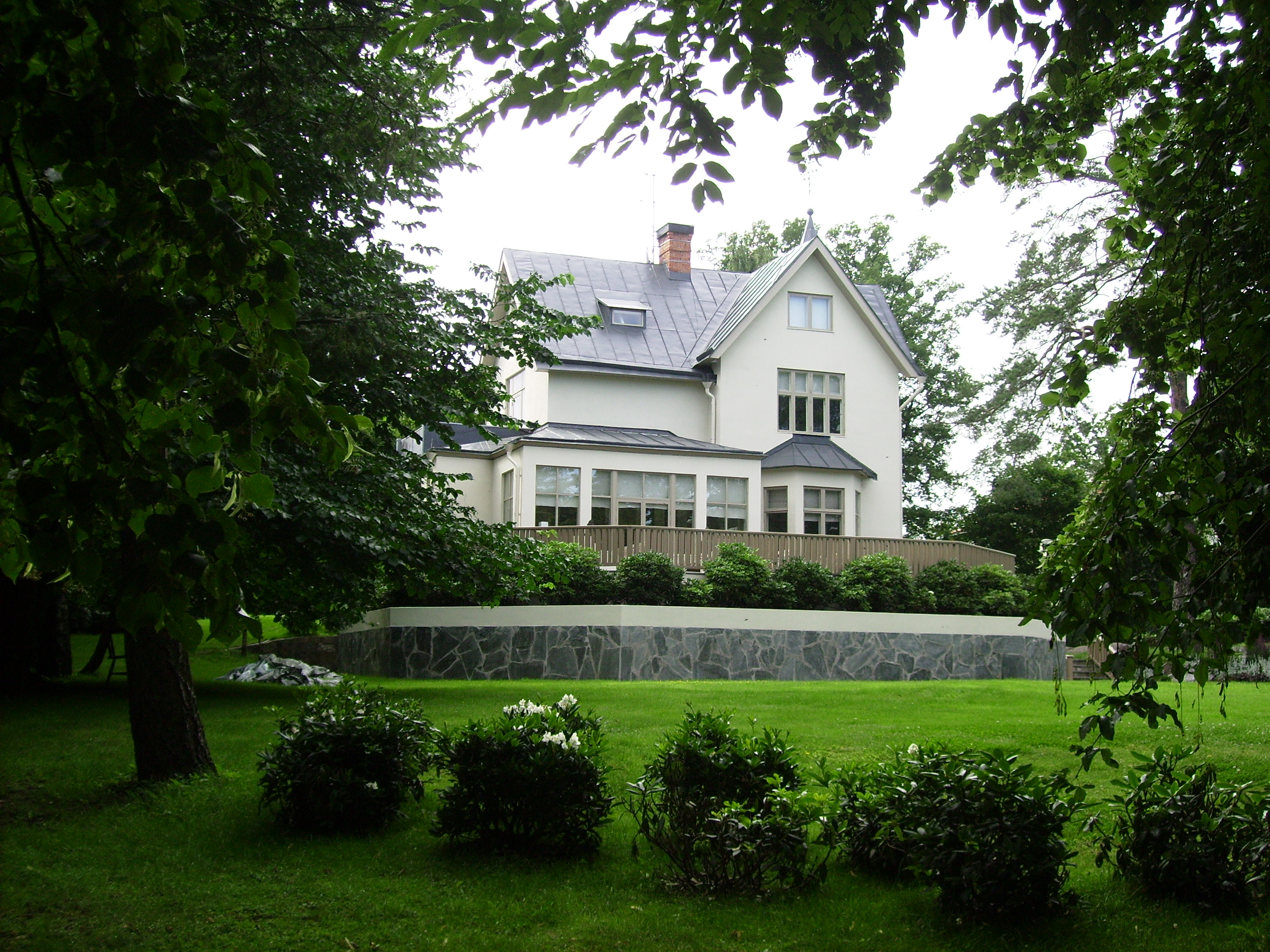 Picture of a mansion in Djursholm, Stockholms län